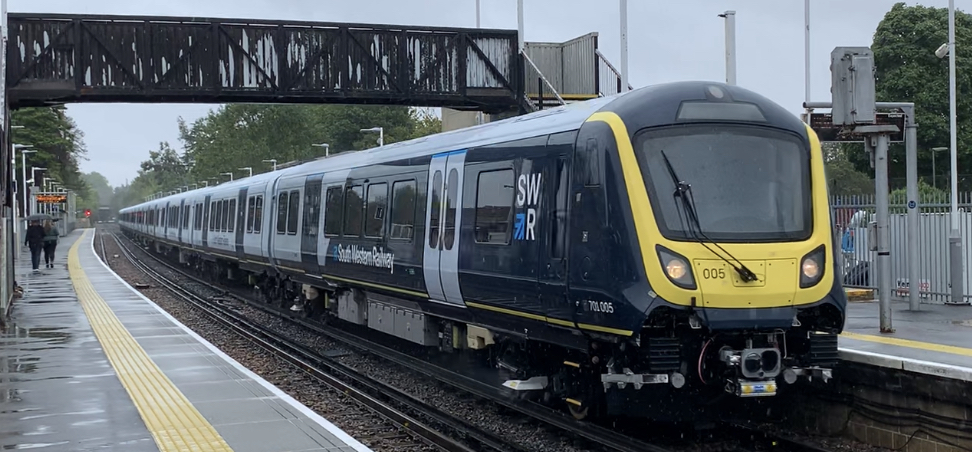 SWR 701005 at Egham on 19th August 2020, prior to the ‘Arterio’ brand being added